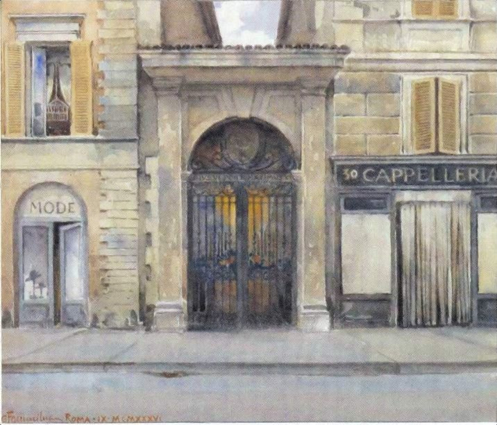 Chapel of the Pietà in Borgo Nuovo, Rome, erected by Pius VI and destroyed in 1936